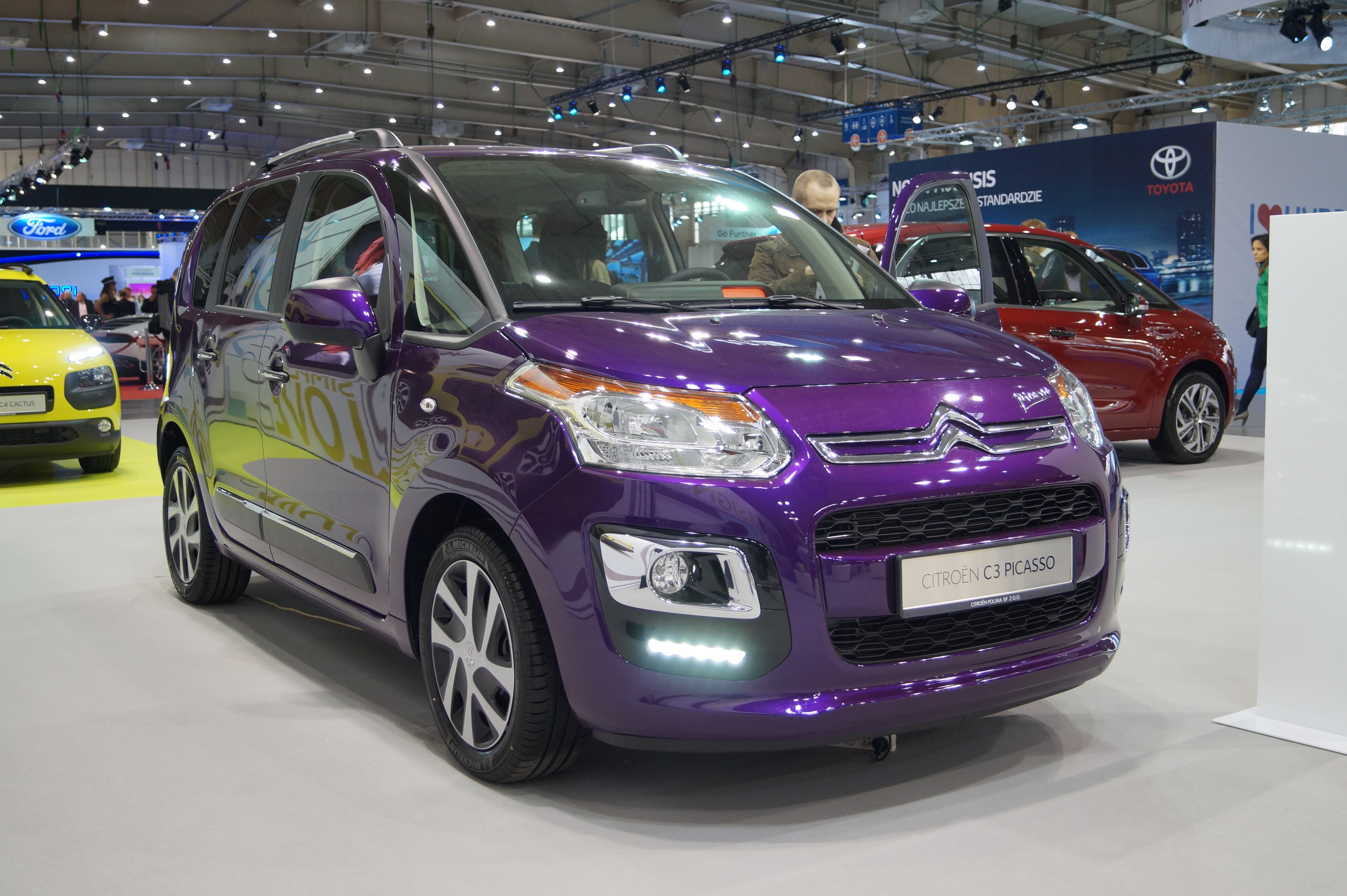 The making of this document was supported by Wikimedia Polska Association, within Wikigrant no. WG 2015-19. Przód Citroëna C3 Picasso na Motor Show Poznań 2015